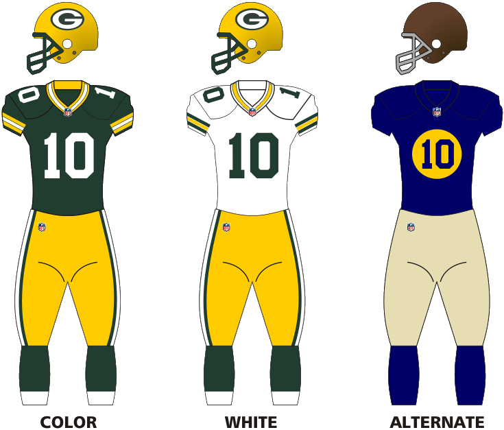 Green Bay Packers uniforms, including the throwback blue jersey, going to be reissued in October, 2013.